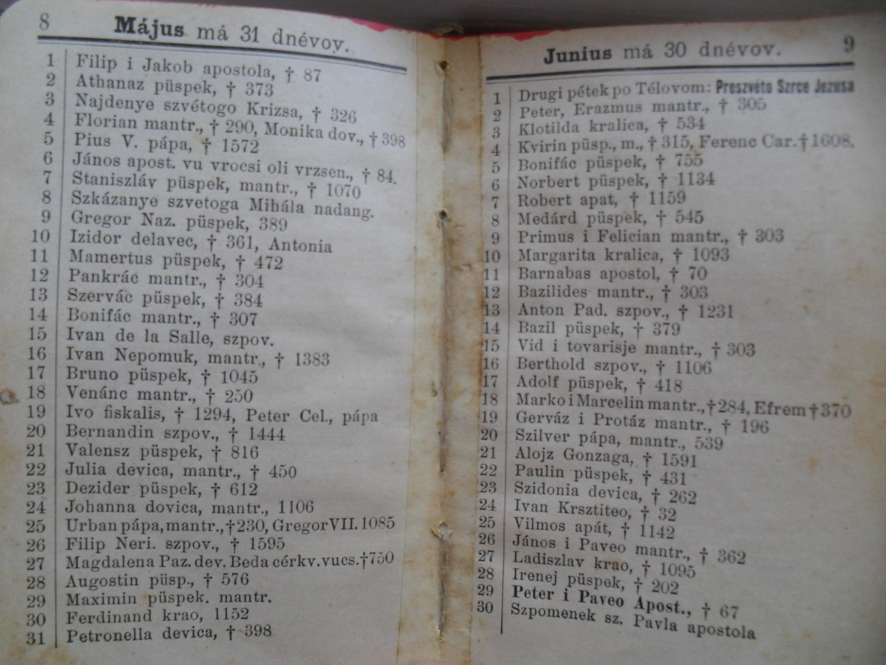 The calendar of the Molitvena kniga (1931) of József Szakovics (1874-1930) – May-June